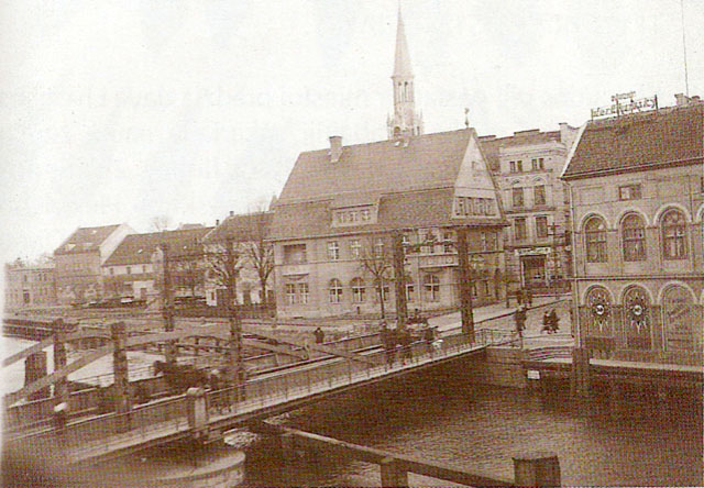 Bridge of Birža in the beginning of XX c. (Klaipėda)